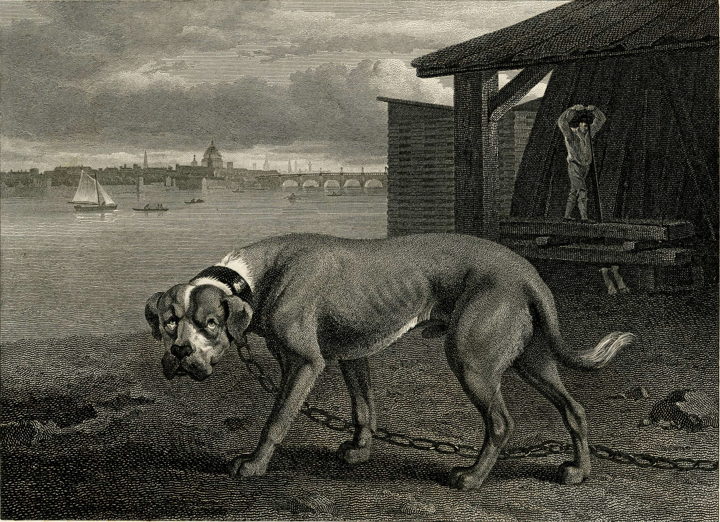 Mastiff. A book illustration.